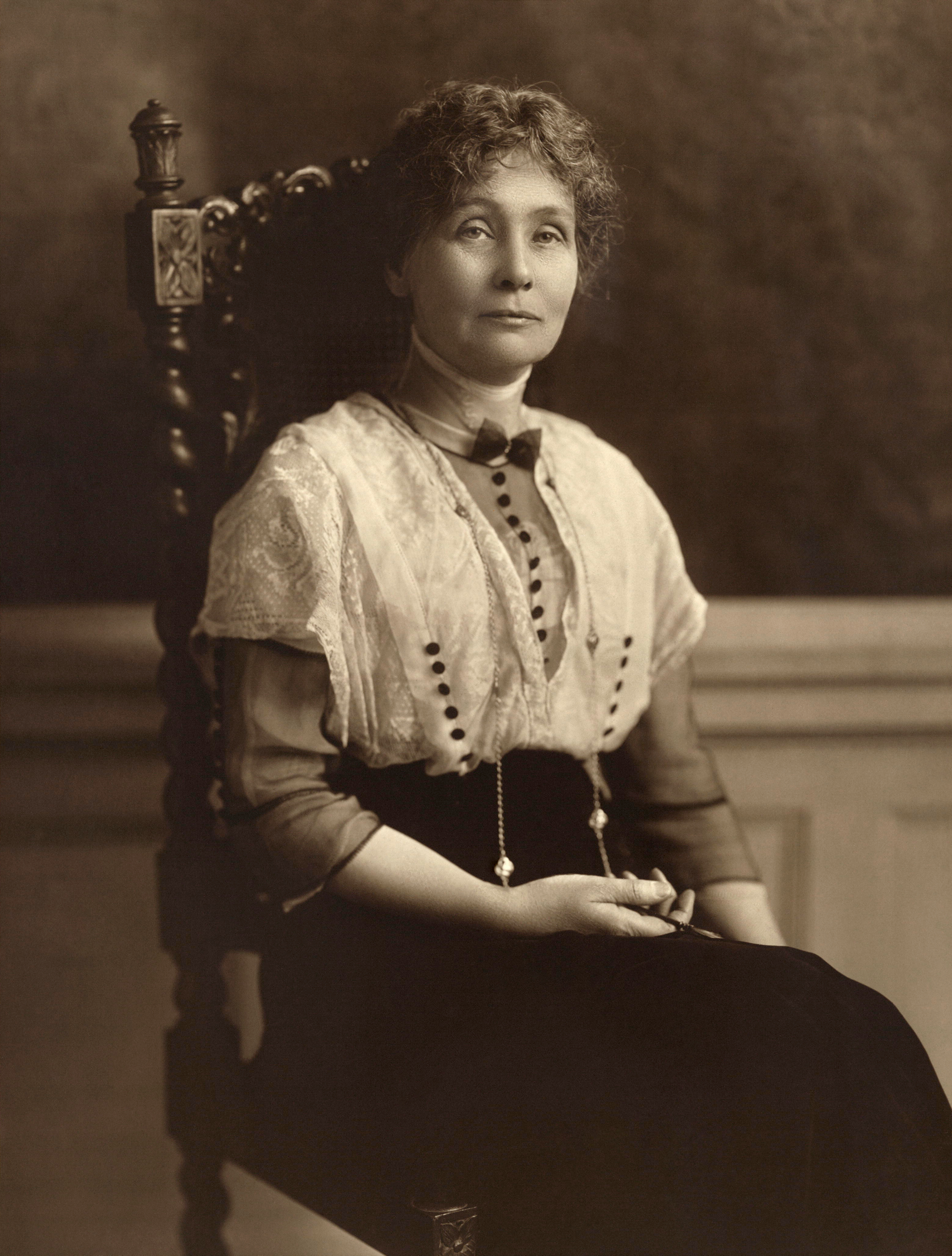 Formal portrait, Emmeline Pankhurst, three-quarter length, seated in chair, facing slightly right with head turned toward camera, wearing high-collared blouse with decorative buttons, bow tie, and necklace.